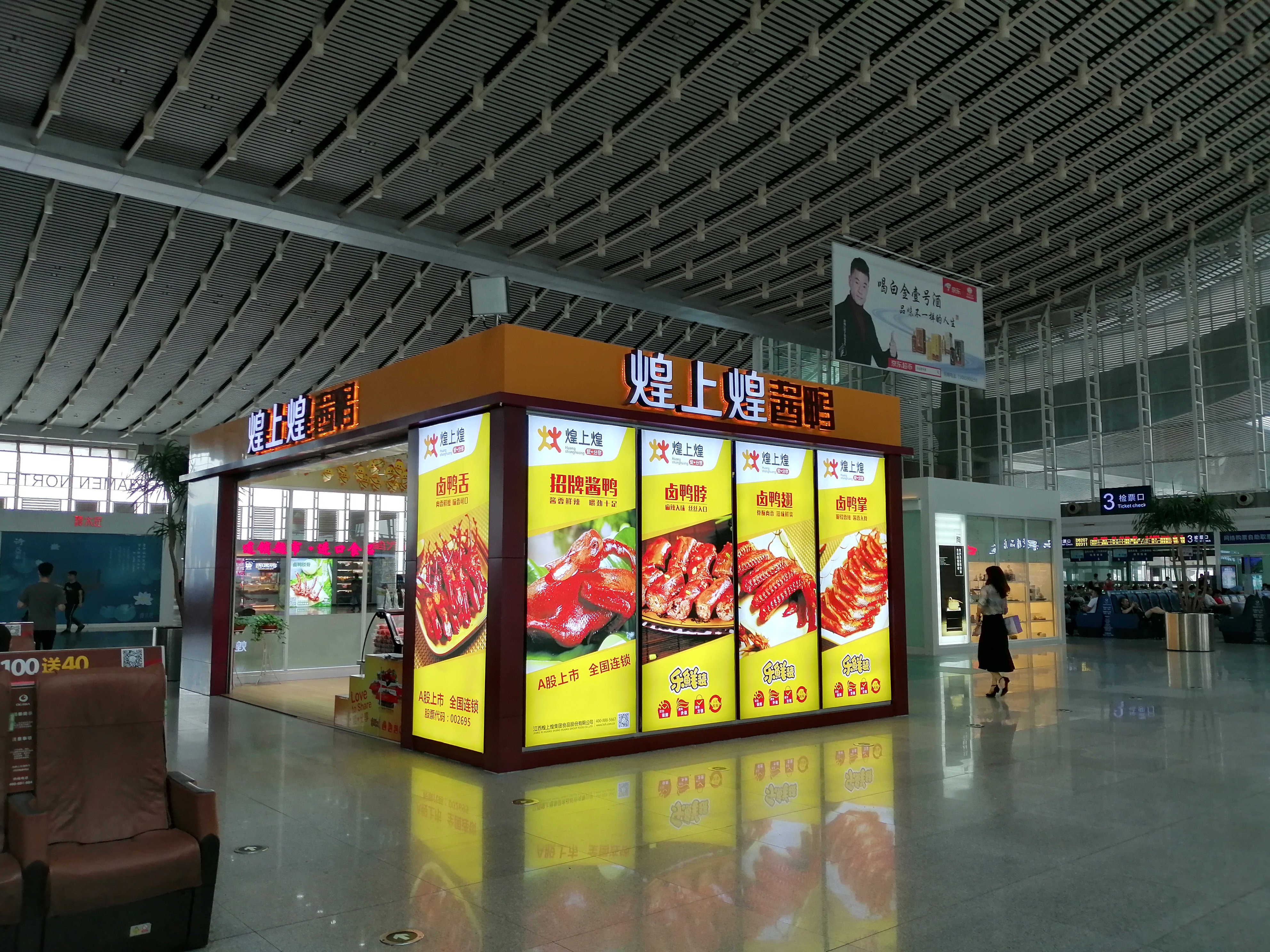 A Huangshanghuang Store, located in waiting room of Xiamen North Railway Station. 中文（中国大陆）: 厦门北站候车室内的煌上煌专卖店